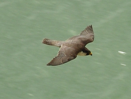 A peregrine falcon (falco peregrinus) flying off the White Cliffs of Dover.